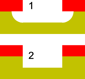 A graphical representation of the anisotropy of etching. Red: masking layer; yellow: layer to be removed. A perfectly isotropic etch produces round sidewalls. A perfectly anisotropic etch produces vertical sidewalls.